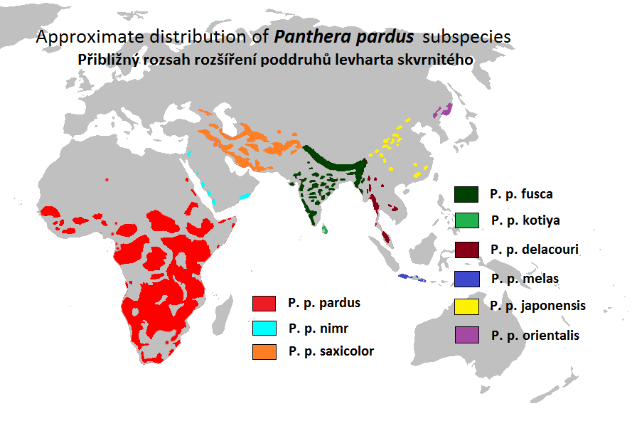 Approximate distribution of subspecies of Panthera pardus (Leopard). Based on Jacobson AP, Gerngross P, Lemeris Jr. JR, Schoonover RF, Anco C, Breitenmoser-Würsten C, Durant SM, Farhadinia MS, Henschel P, Kamler JF, Laguardia A, Rostro-García S, Stein AB, Dollar L. (2016) Leopard (Panthera pardus) status, distribution, and the research efforts across its range. PeerJ 4:e1974